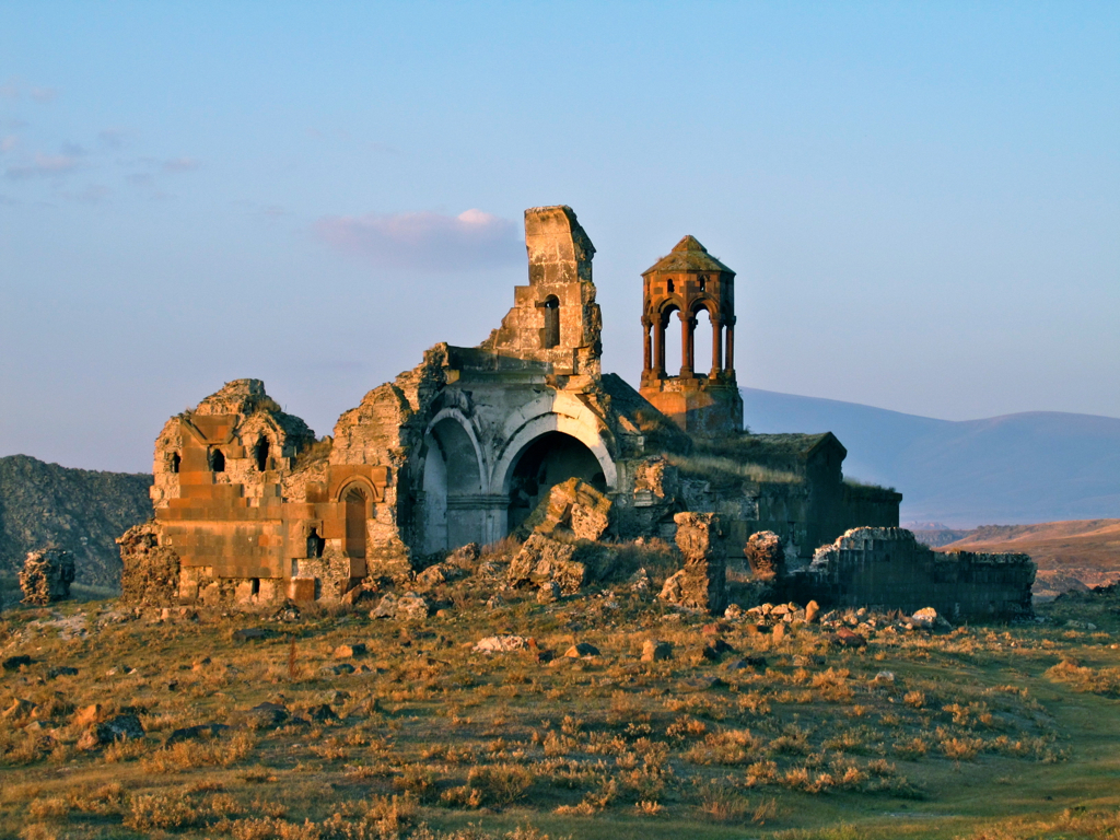 The remains of The Monastery of Horomos (Ghoshavank) in early morning light. The monastery is situated in the Turkish province of Kars, beside the border with Armenia. It was built circa 10th century.